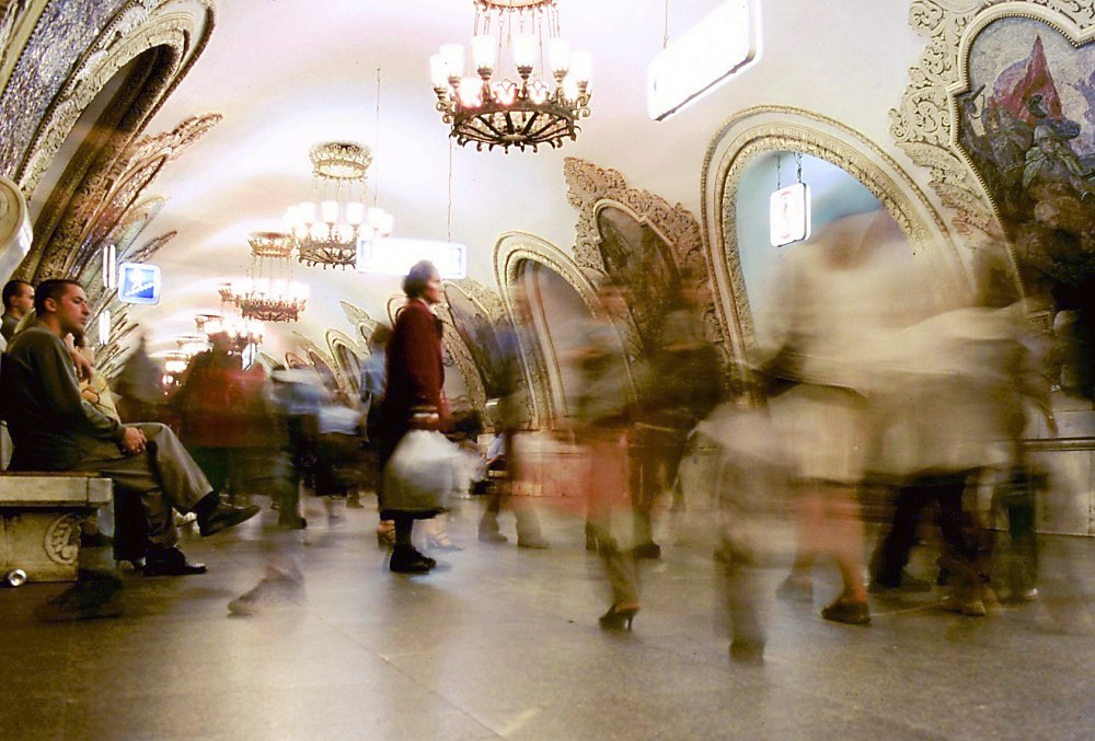 Kievskaya station on the Moscow Metro.